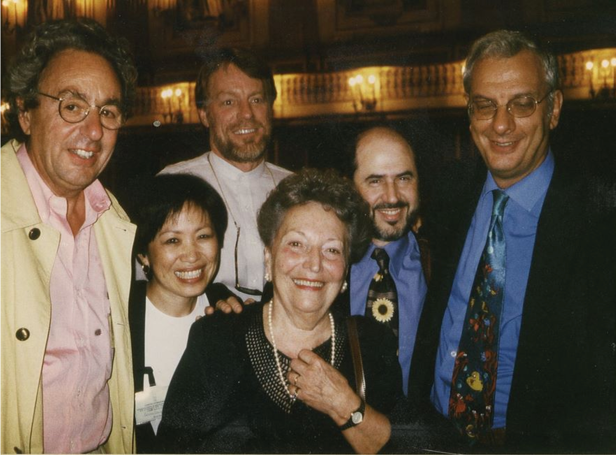 Mara Selvini Palazzoli with Maurizio Andolfi, Vincenzo Di Nicola and Tazuko Shibusawa at the International Conference of the Academy of Family Psychotherapy for the Twentieth Anniversary of Terapia Familiare, Naples, Italy, November 1996